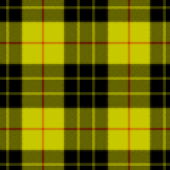 Nicknamed "Loud MacLeod", this tartan is generally referred to as "MacLeod Dress" or "MacLeod of Lewis" and sometimes "Macleod, Yellow of Raasay", it's one of the most instantly recognisable of Scottish tartans.